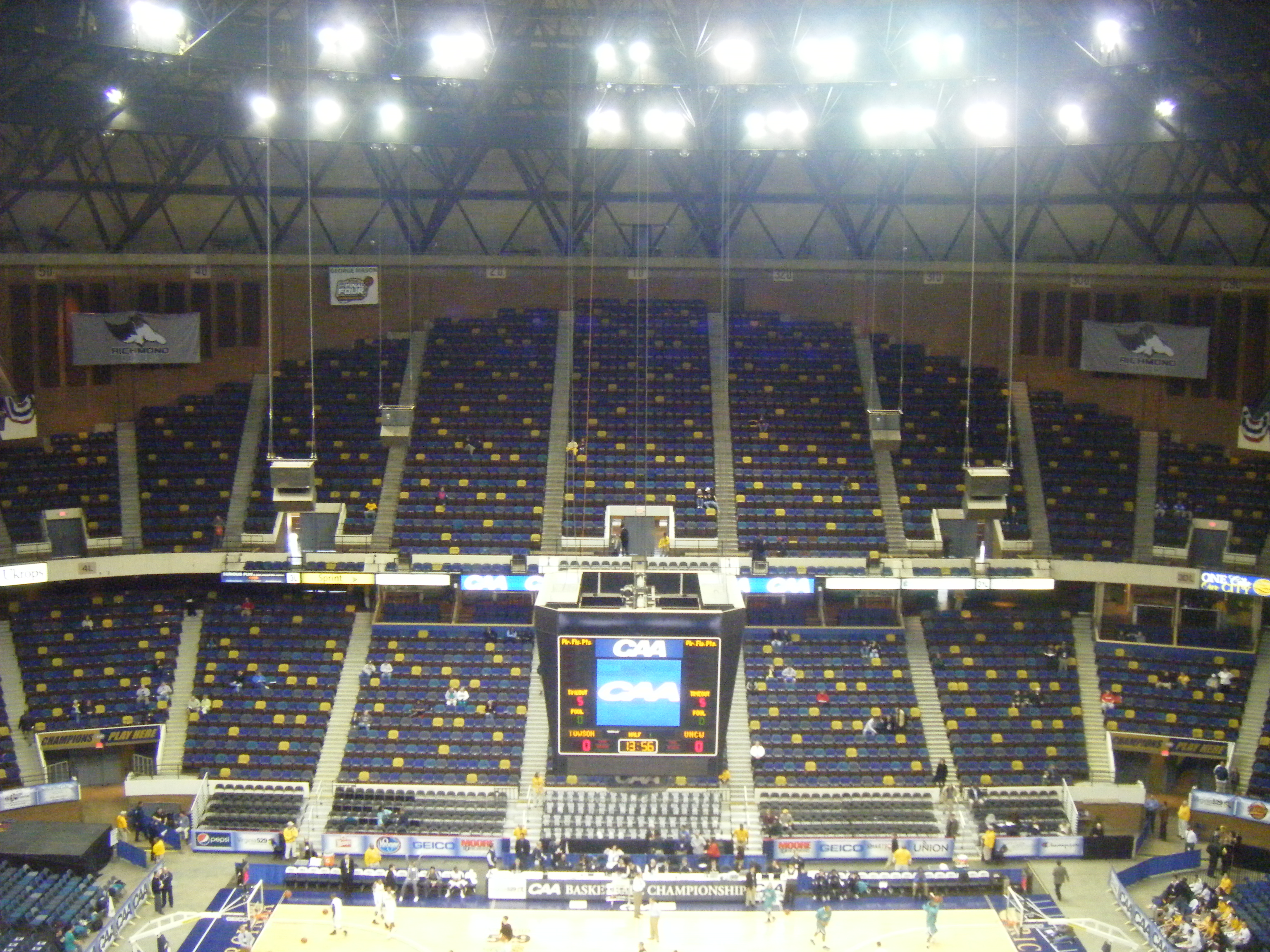 Richmond Coliseum on the inside